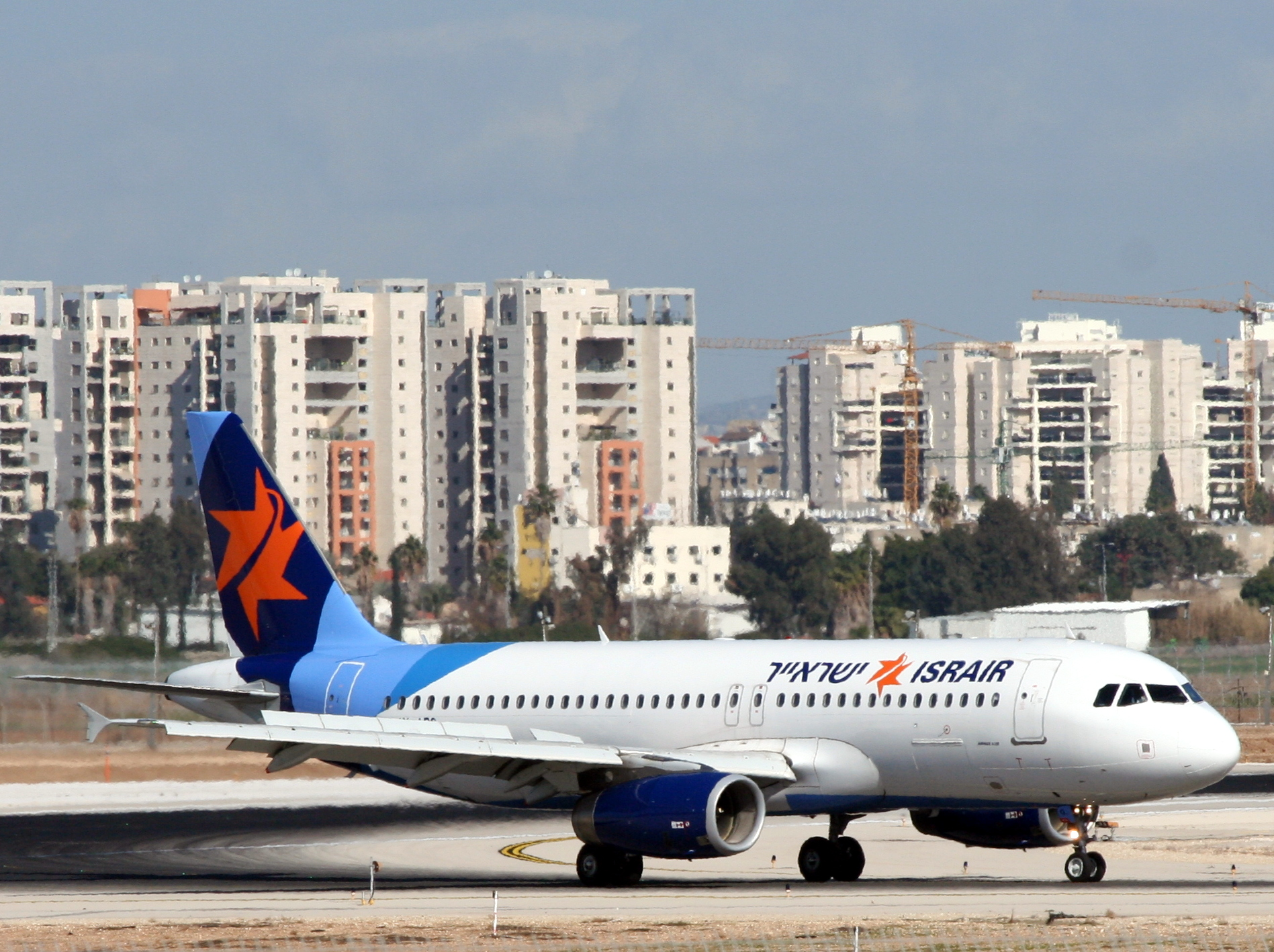 At Ben Gurion International airport